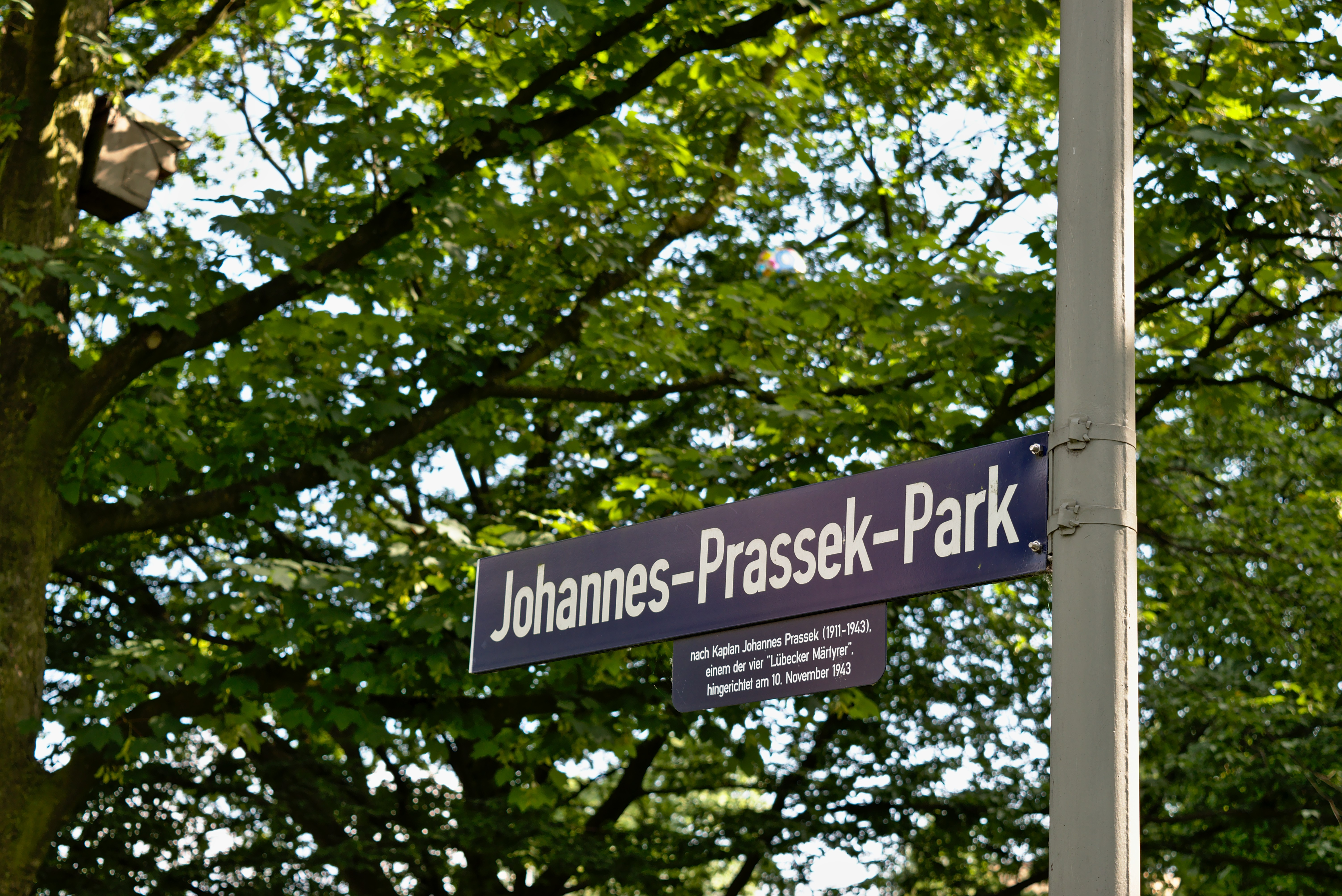 Johannes-Prassek-Park, Barmbek-Süd, Hamburg. Sign near Heinz-Gärtner-Brücke (bridge).